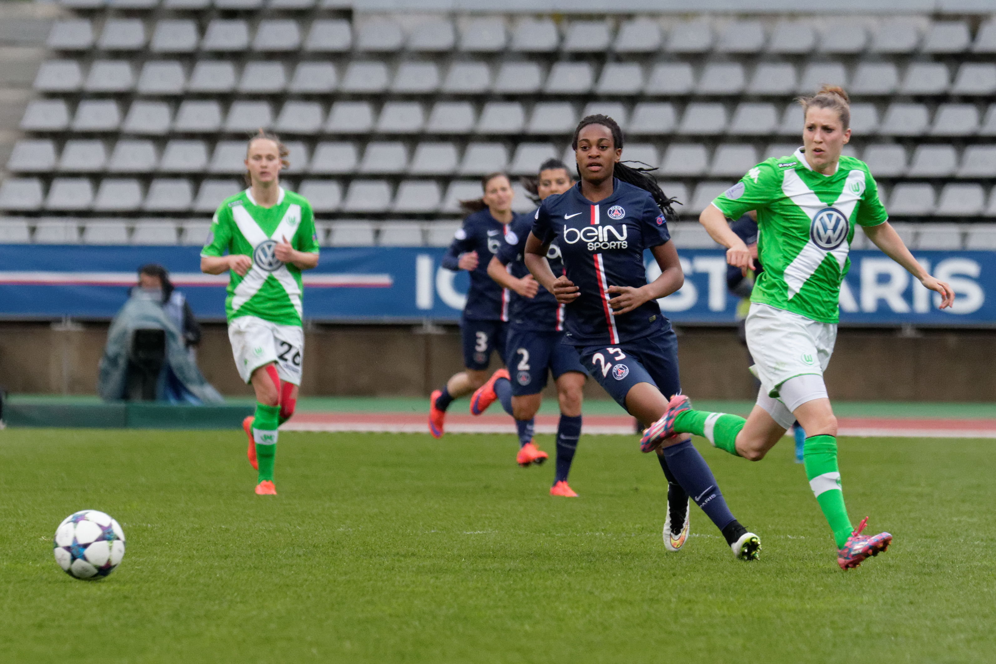 UEFA Women's Champions League, PSG - Wolfsburg, 26 April 2015.